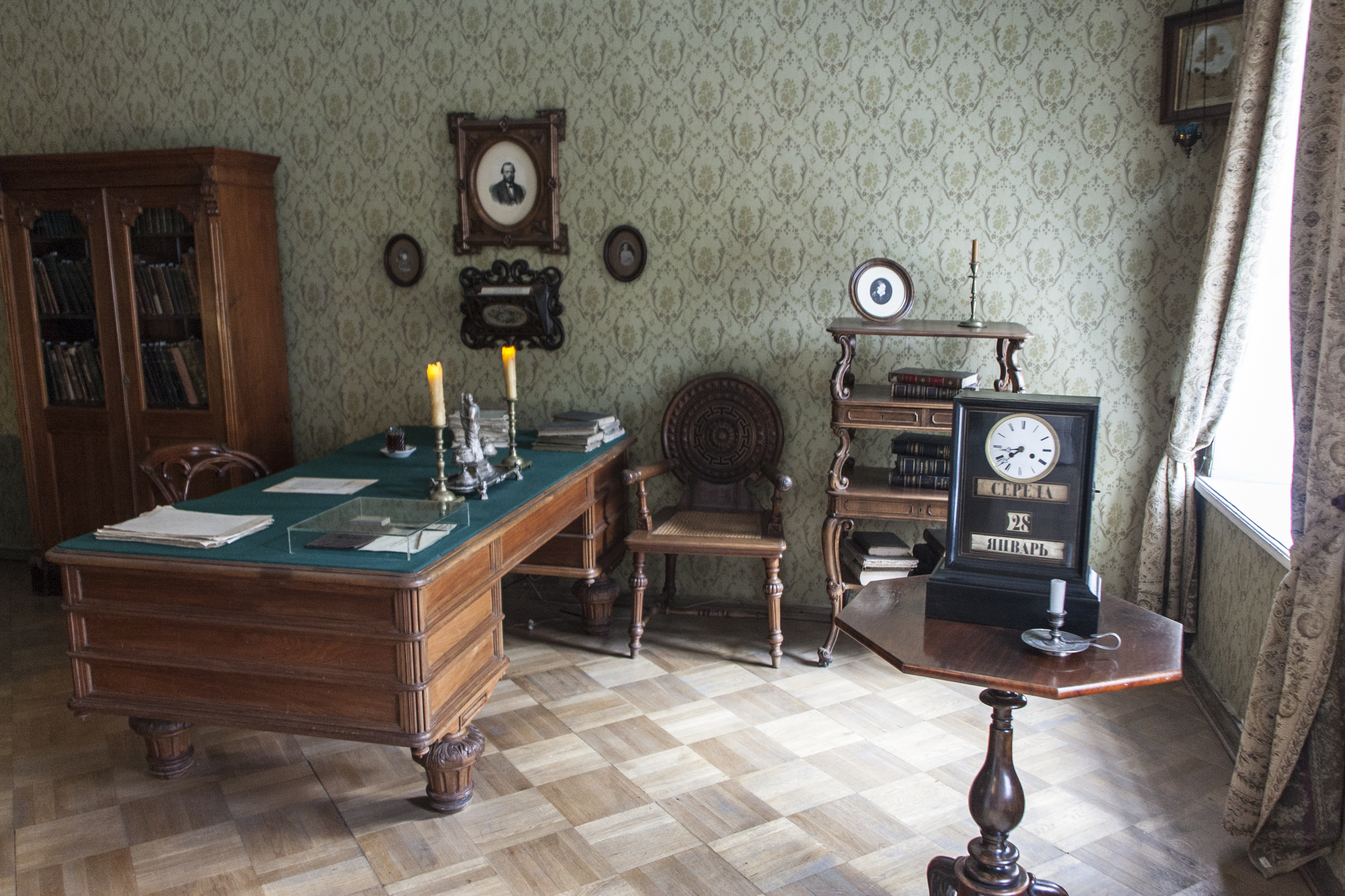 office of Dostoevsky